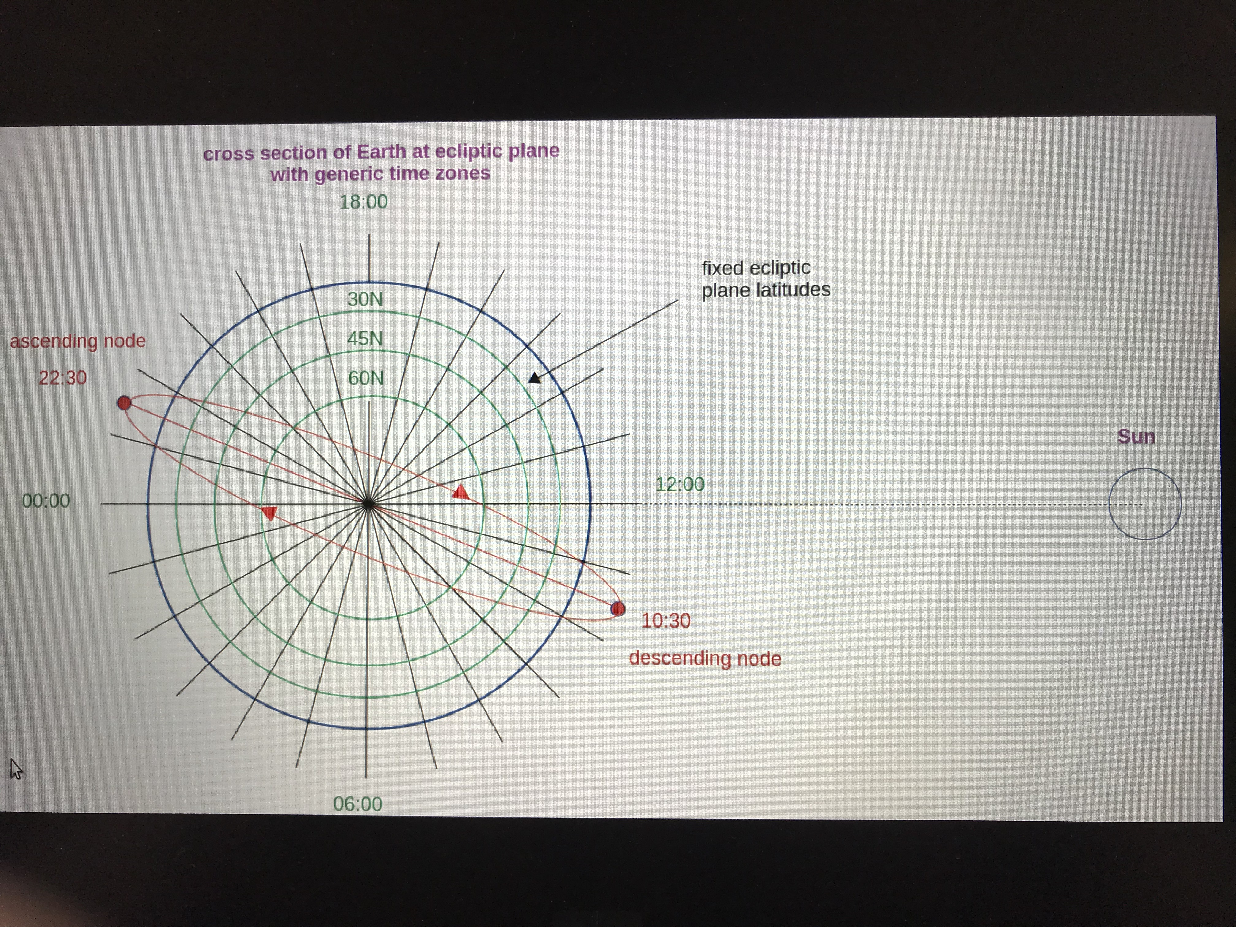 There appears to be no seasonal correlation in azimuth and elevation of the satellite when images are taken